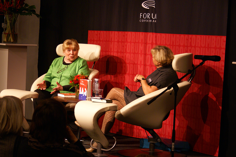 Fay Weldon at the Book Fair in Copenhagen, November 2008, interviewed by Lone Kühlmann